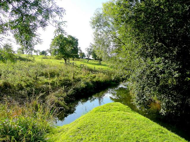 River Isbourne at Hinton on the Green Looking south at the point where the river is split to form a mill race, left. This sunny scene was photographed at 09:09, 09/09/2009.